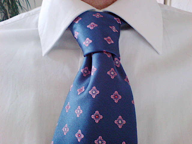 A Windsor knot.